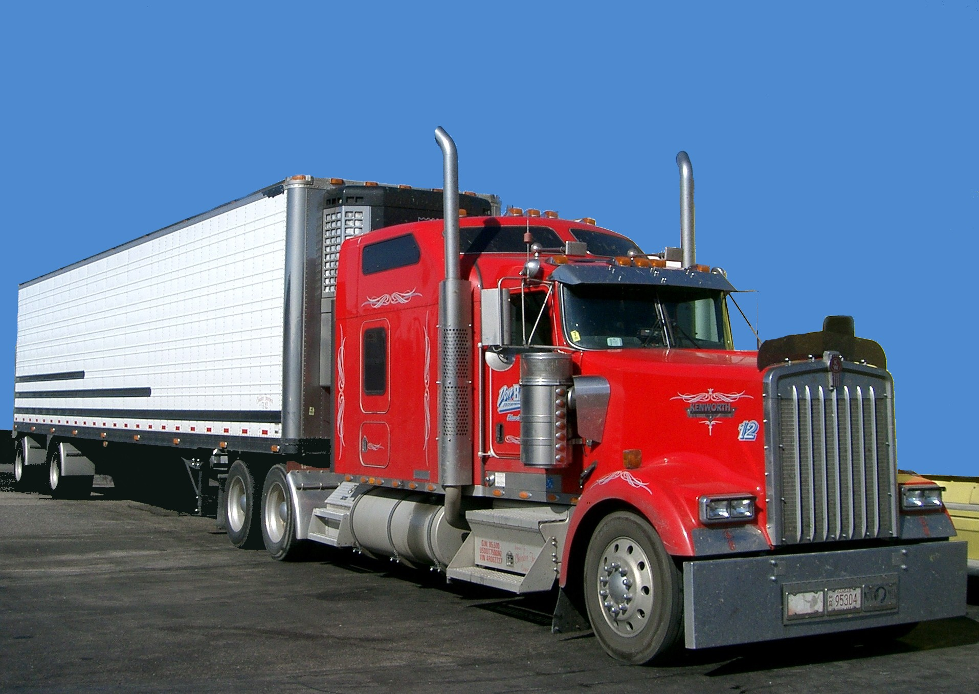 US truck - California 2007